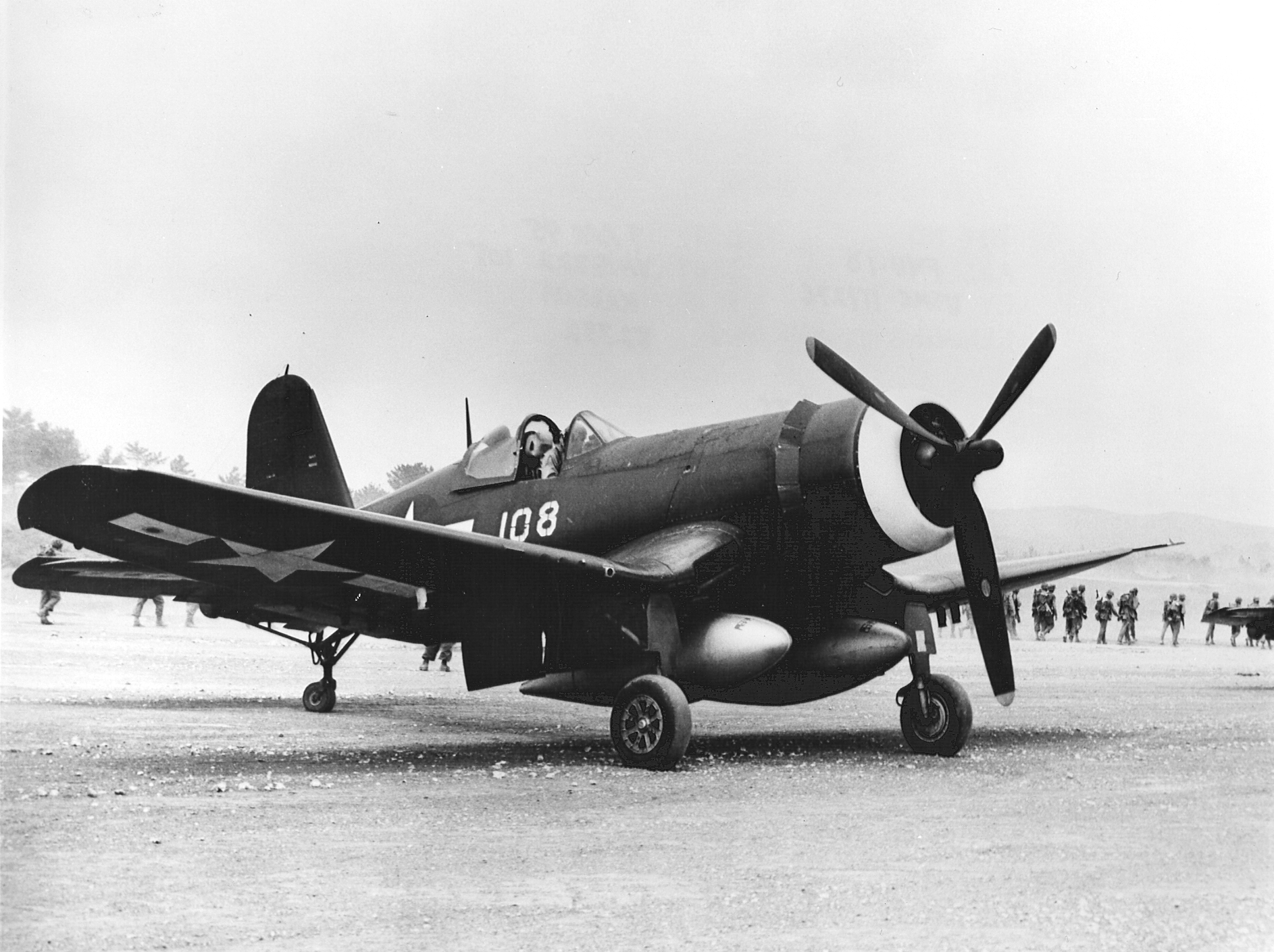 A U.S. Marine Corps Vought F4U-1D Corsair of Marine Fighting Squadron VMF-322 "Cannon Balls" at Kadena, Okinawa (Japan), in April 1945.